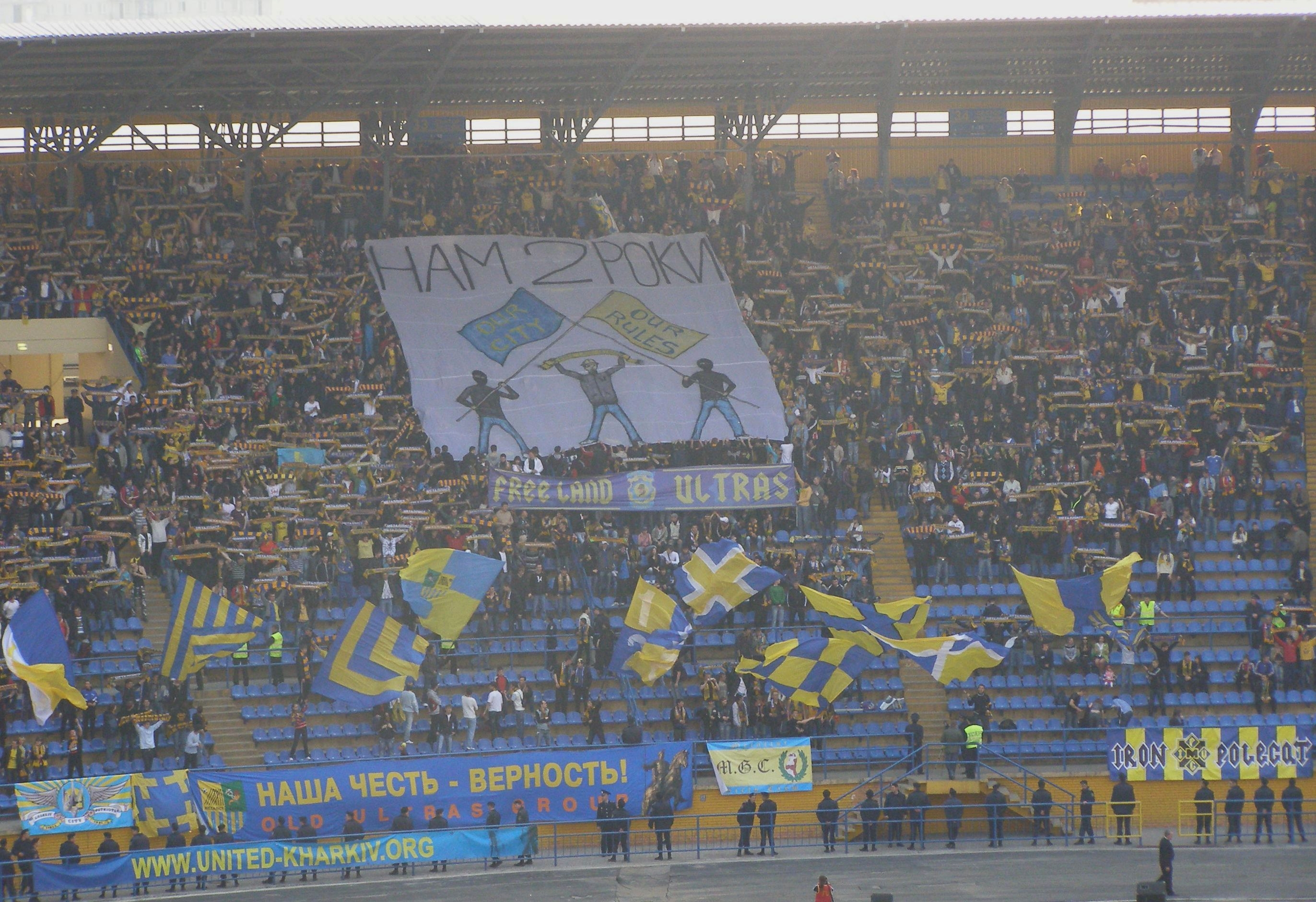 Metalist Kharkiv Ultras